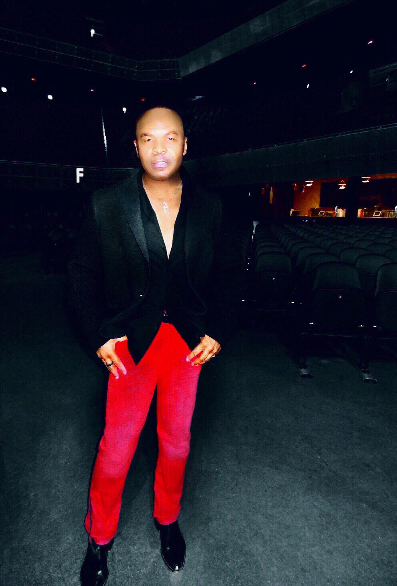 Jonathan "Sugarfoot" Moffett in Milano, Italy before going on stage